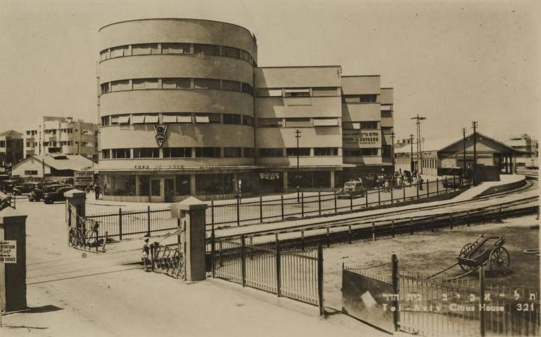 Tel Aviv, Transport in Israel